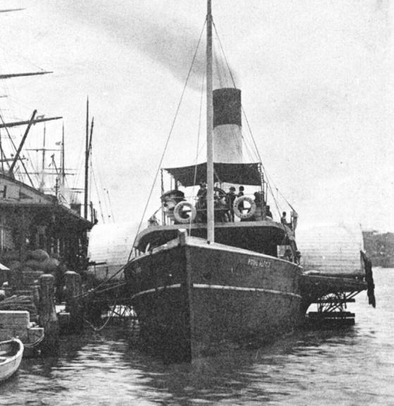 Sydney Ferry ROYAL ALFRED (1868 - 1893), c. 1890 ROYAL ALFRED. PS. (1868-1893), Manly tug ferry. DESCRIPTION The ferry is loading passengers over the cargo wharf at No 4, Sydney Cove. Note the paddle blades and frames. DATE c.1890 FORMAT Digital image only. Many of the images in this collection are available as hi-res jpegs. Please contact the City of Sydney Archives (archives@ .au) on a case by case basis. RECORDSERIES Sydney Reference Collection CITATION Graeme Andrews 'Working Harbour' Collection: 82442 PROVENANCE City of Sydney Archives NOTES S105211